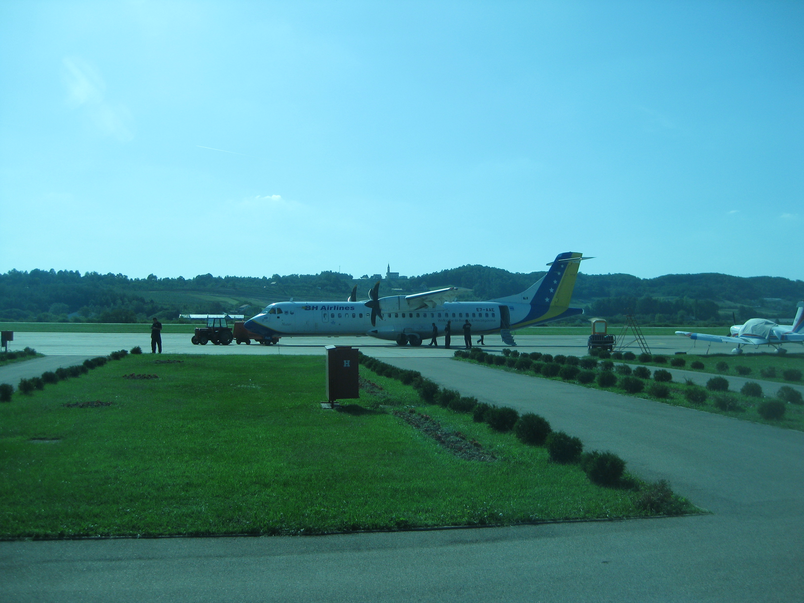 B&H Airlines ATR 72 at Banja Luka airport